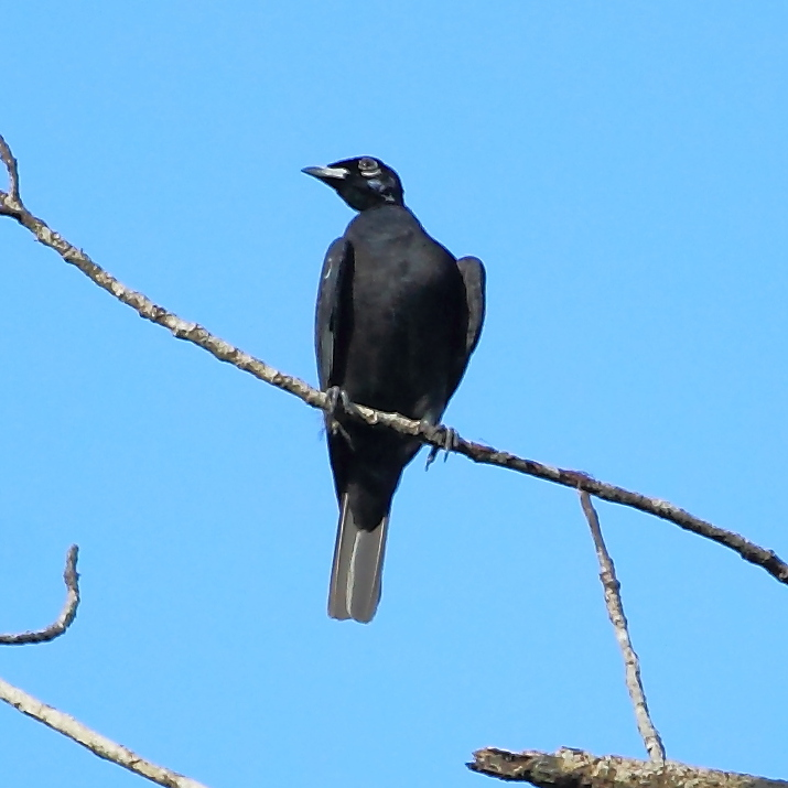 Bare-necked Fruitcrow (female) at Apiacás - MT - Brazil